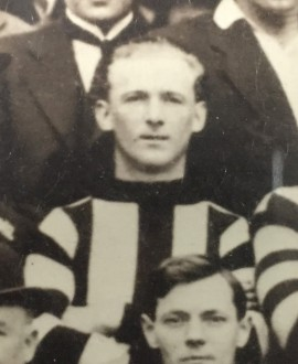 Photograph of Len Ludbrooke from 1920-1921